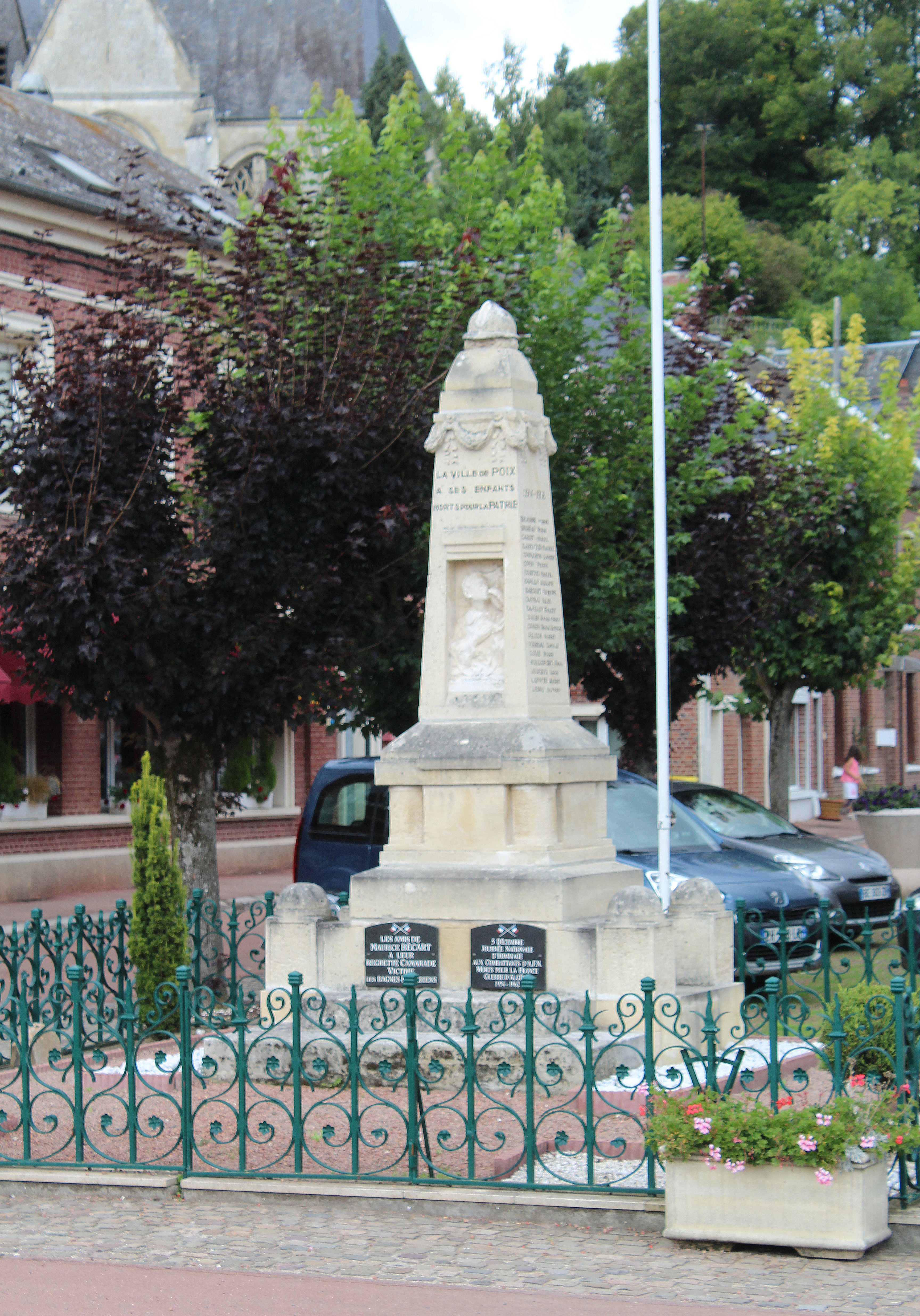 Poix-de-Picardie, war memorial